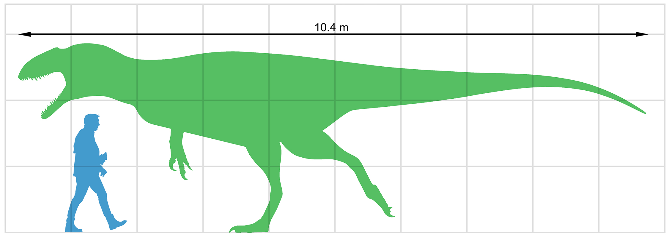 Size comparison of Siats meekerorum to human.